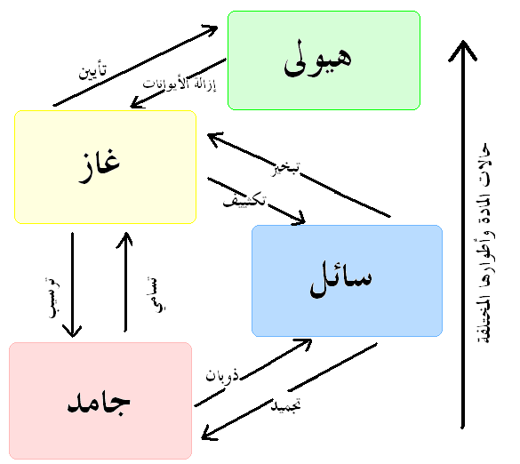 This is an illistation created by me on MS paint on the phase changes of a system. Nomenclature is also included